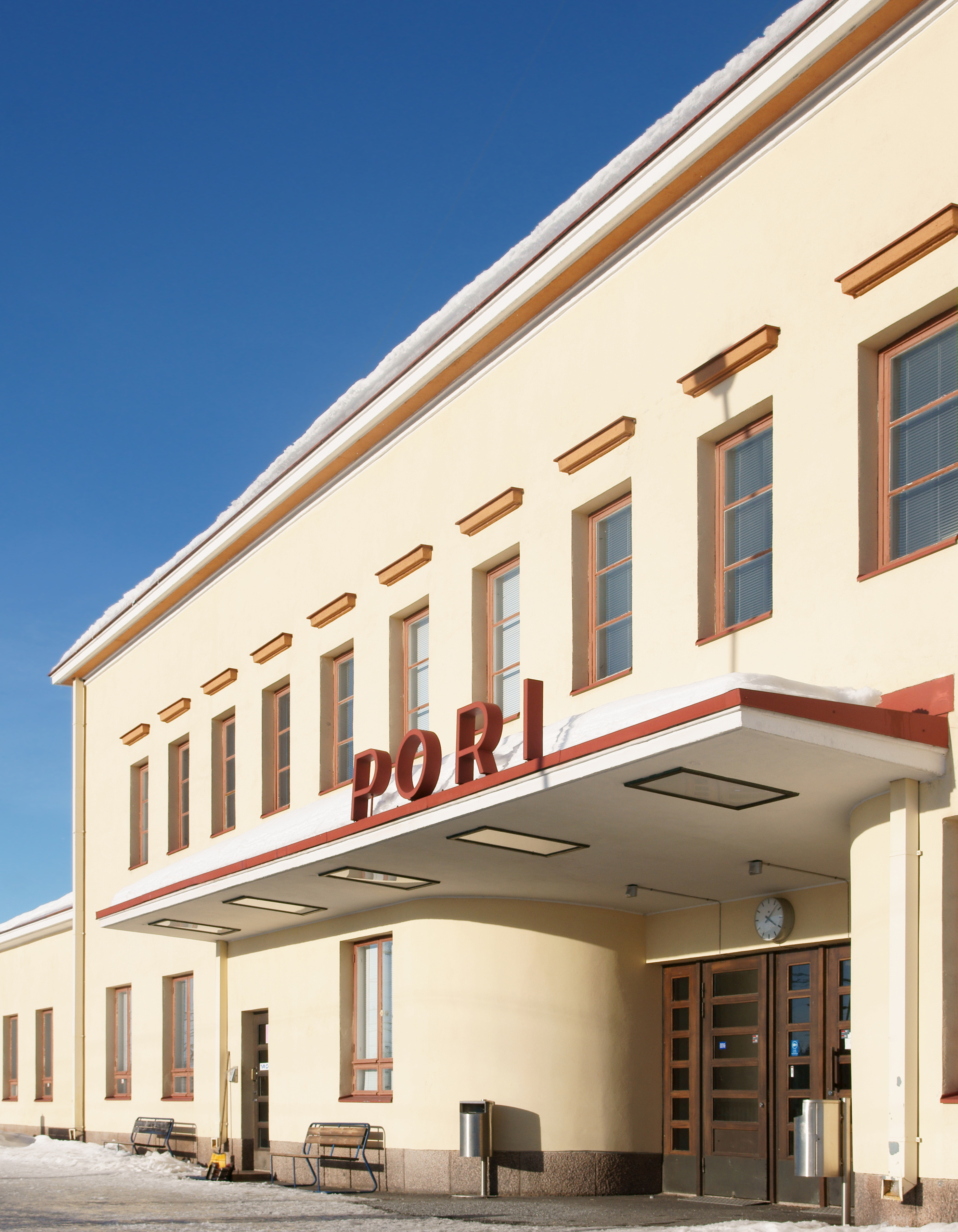 Pori railway station in Pori, Finland.